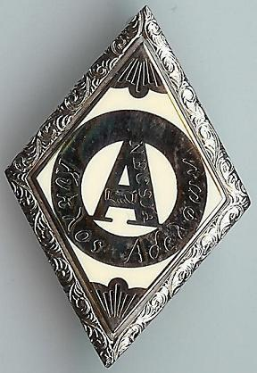 Membership Pin for the Kuklos Adelphon Fraternity.